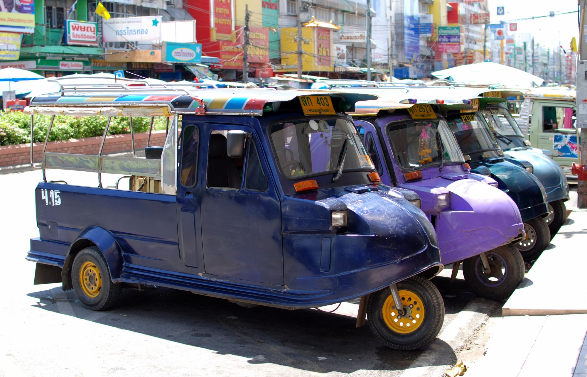 Tuk-tuks in the city of Ayutthaya, Thailand, are of a different model than, for instance, in Bangkok and Chiang Mai. Instead of having a single bench in the back, the Ayutthaya tuk-tuks are slightly larger and have two parallel benches for passengers with the entrance from the back; similar to the much larger songthaews which are converted pick-up trucks.